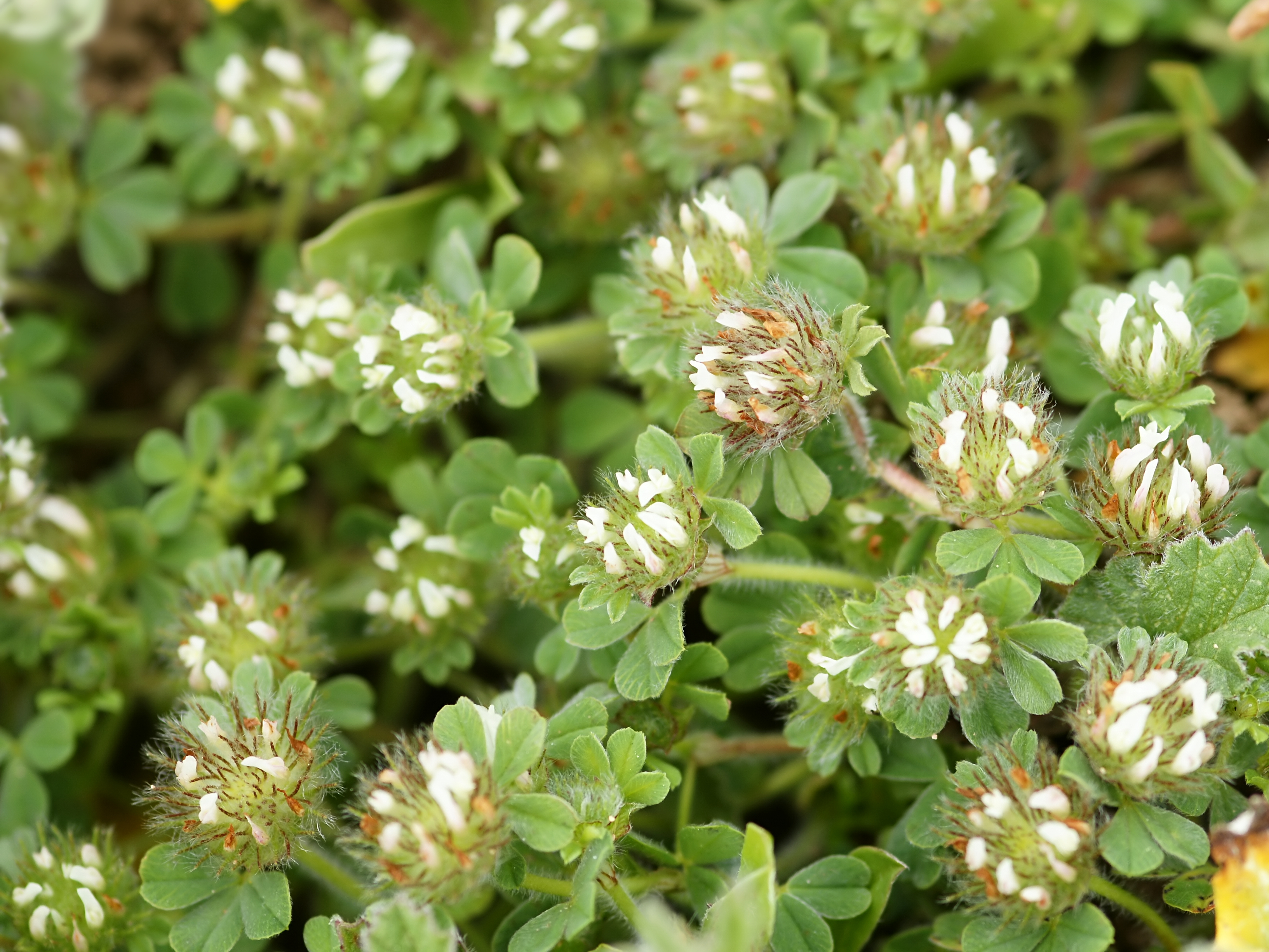 Cupped Clover near Cala Ses Salinas, Mallorca.